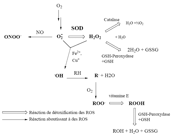 Reactive oxygen species and detoxifying system (French)